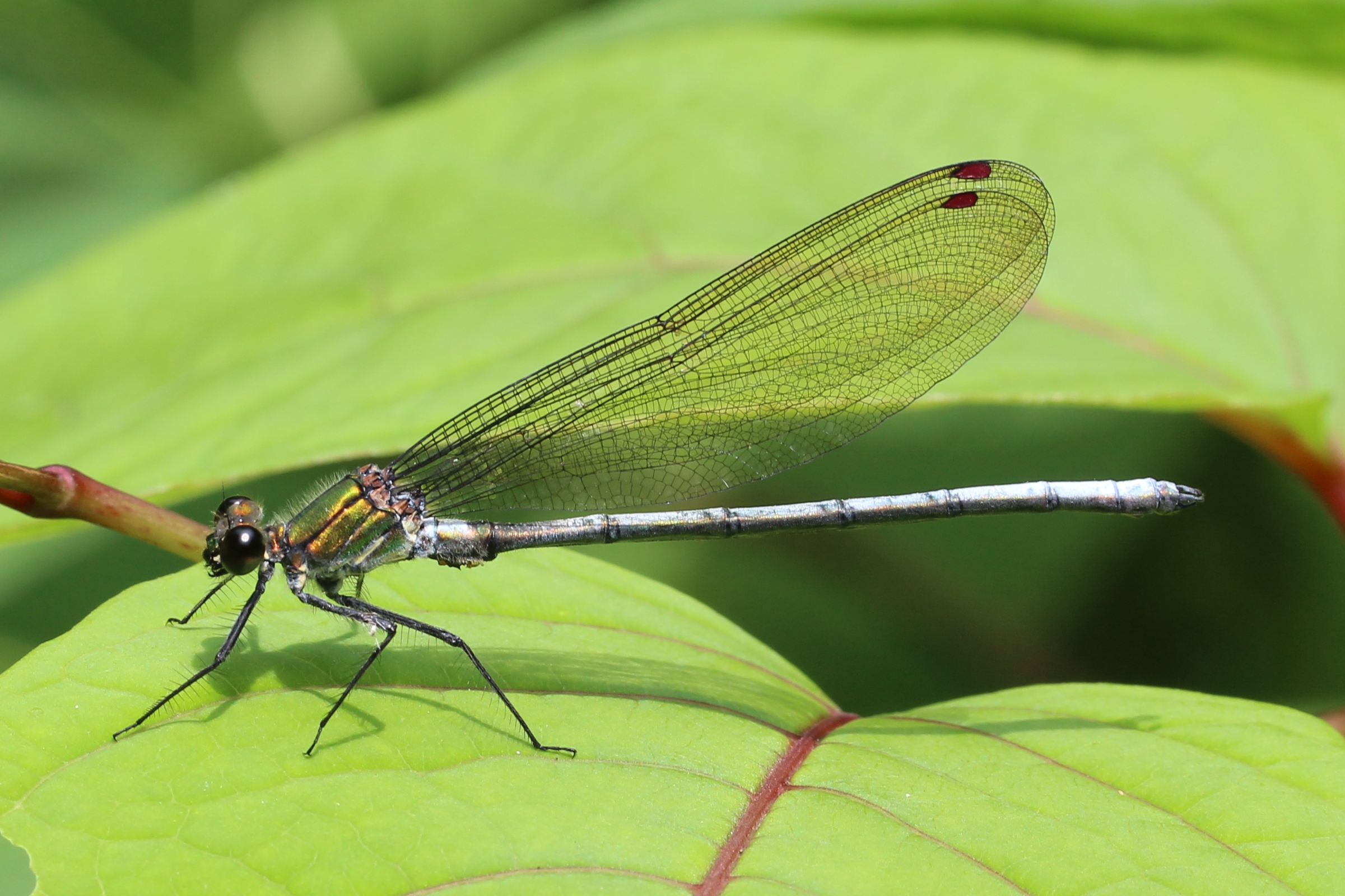 Mnais pruinosa, male in Japan.